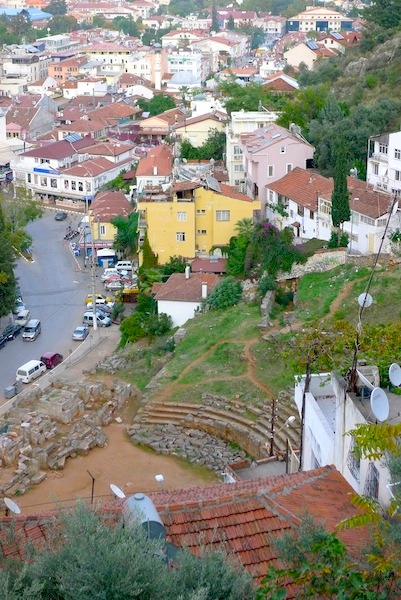 Ancient Theater of Fethiye, Turkey